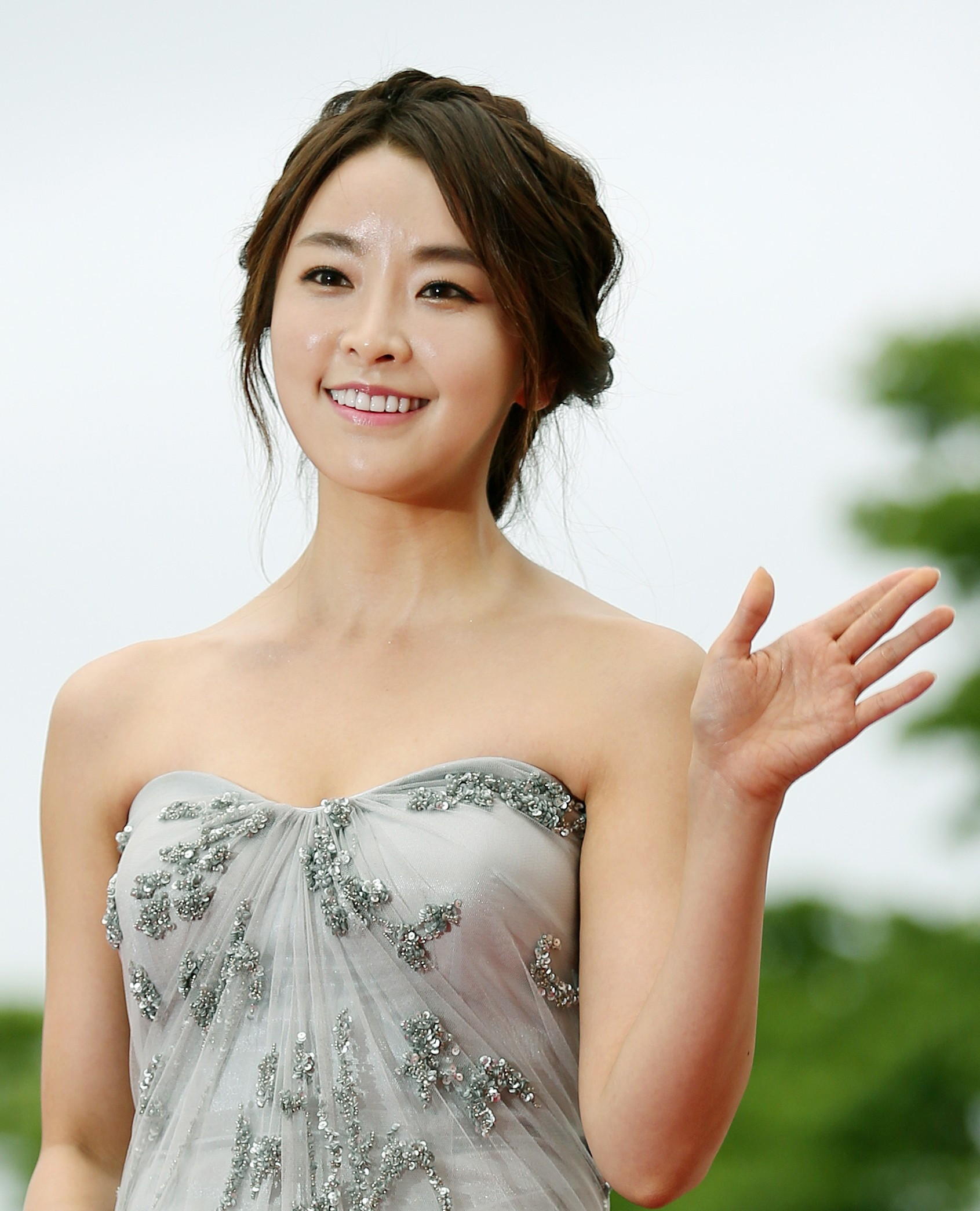 Actress Jeong Yu-mi (born 1984) arrives at the red carpet event of the Pifan in Bucheon on July 17, 2014